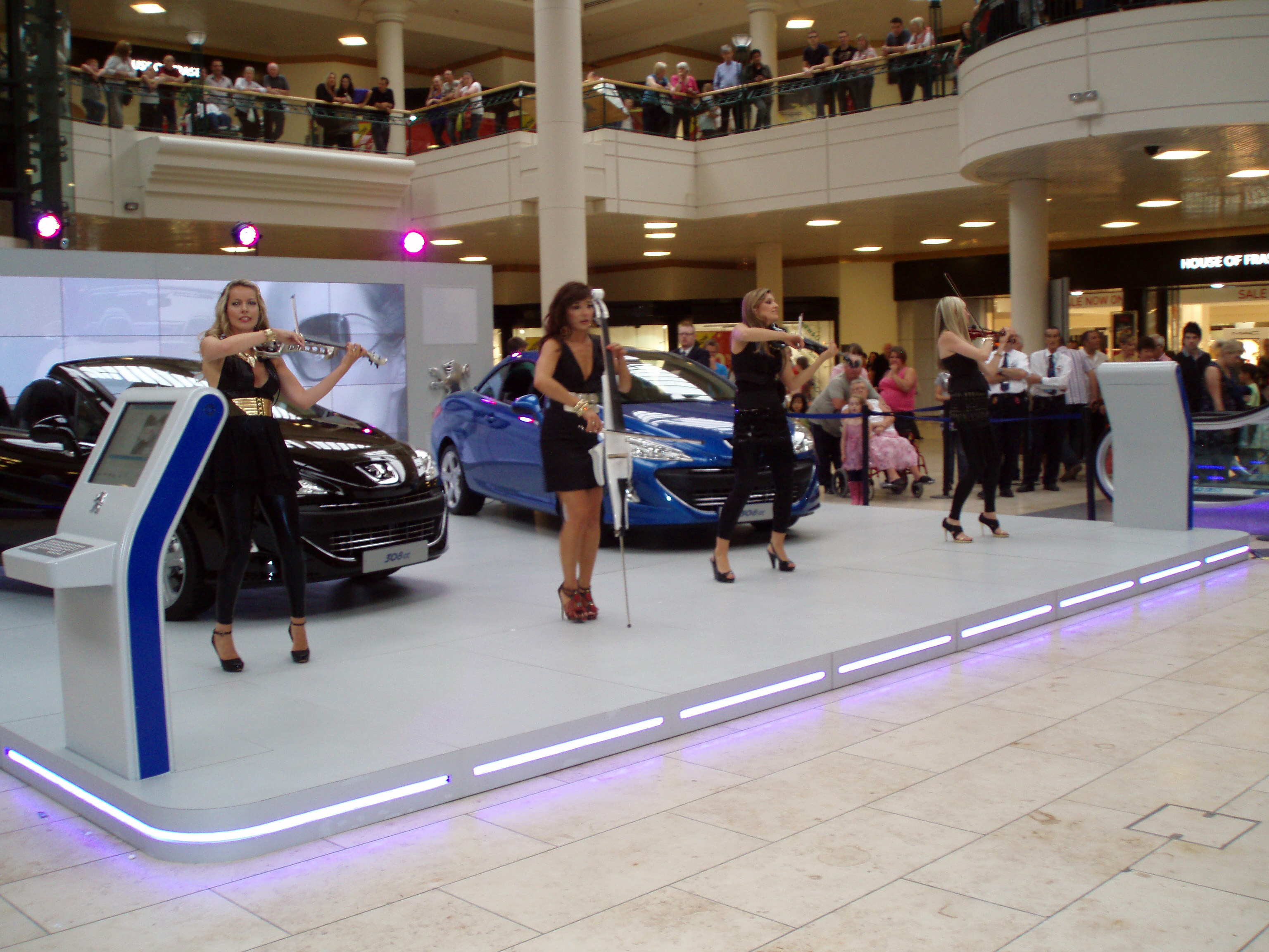 Bond performing at the Metrocentre in Gateshead, UK in promotion of Peugeot on 27 June 2009.